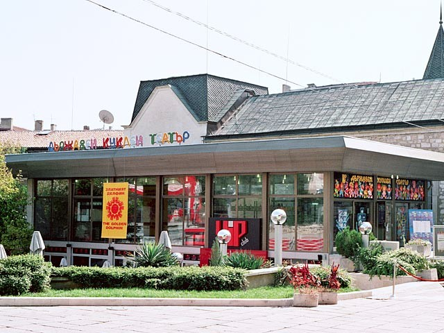 State Puppet Theatre Varna, Bulgaria